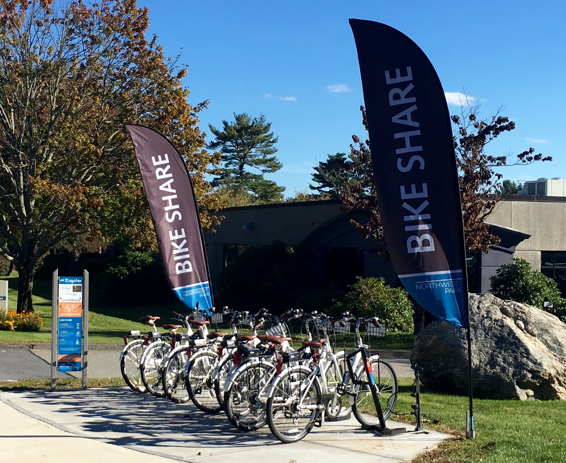 A Zagster bike station on a corporate campus in Burlington, Massachusetts.